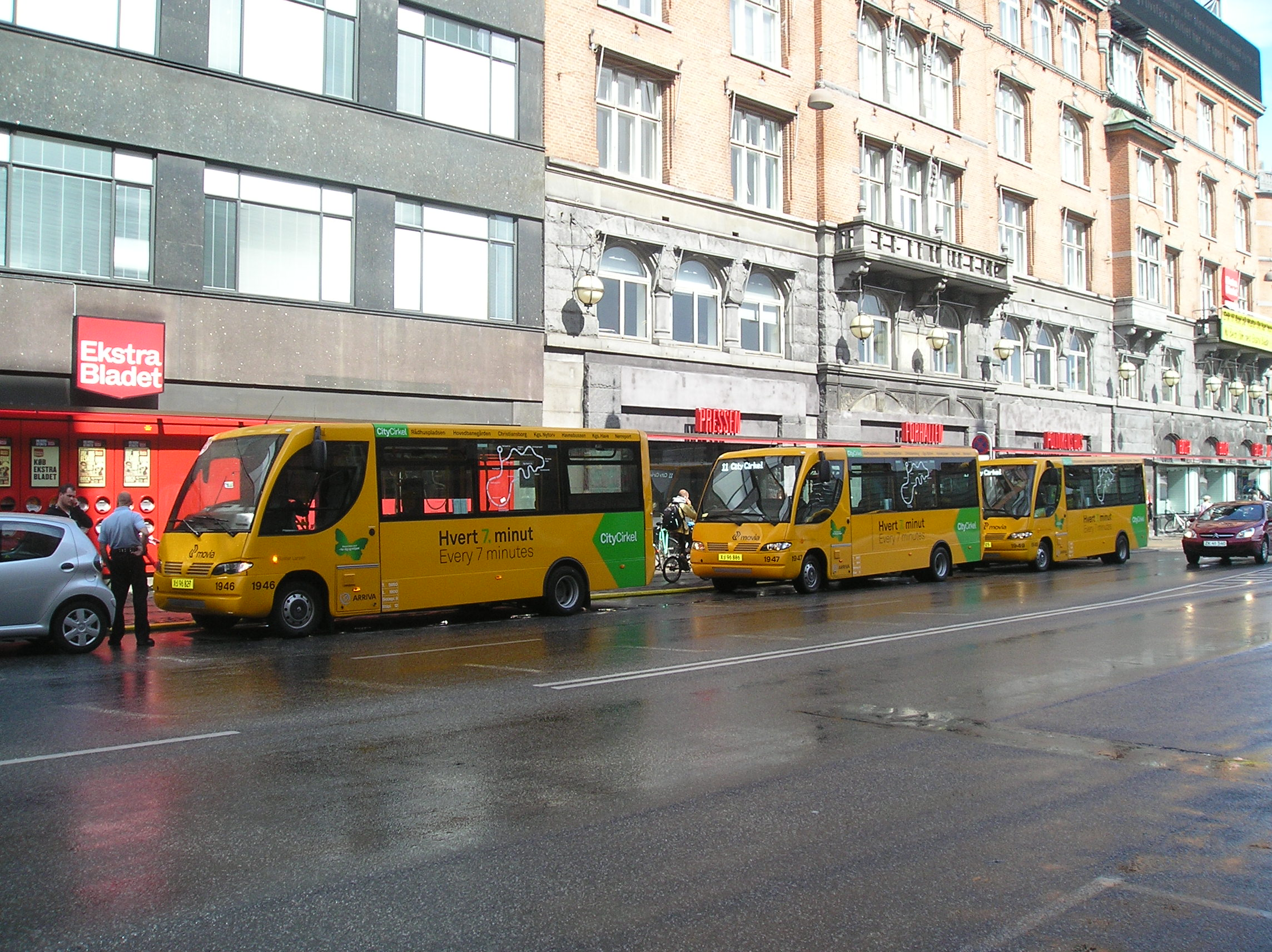 The terminus of the bus line CityCirkel on Vester Voldgade in Copenhagen.